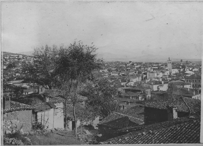 Antante in Kozhani or Kozani, Greece in 1917-1918 To the right is the tower of church "St. Nikolaos"